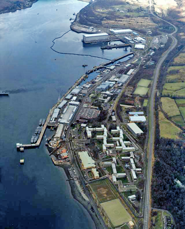 HM Naval Base Clyde Faslane base harbor view from the SE. Piers 10, 11 and 12 are within the floating boat barriers